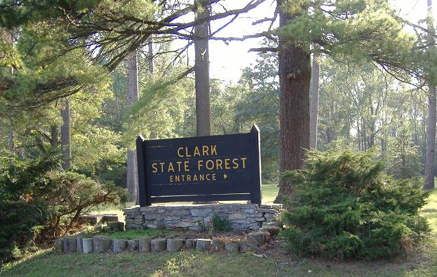 Entrance sign of Clark State Forest, north of Henryville, Indiana.